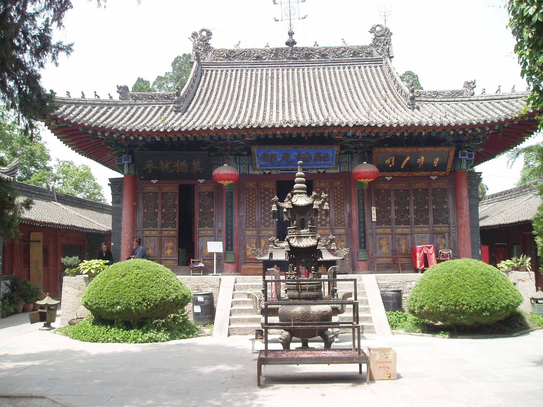 A hall within the Louguan temple.